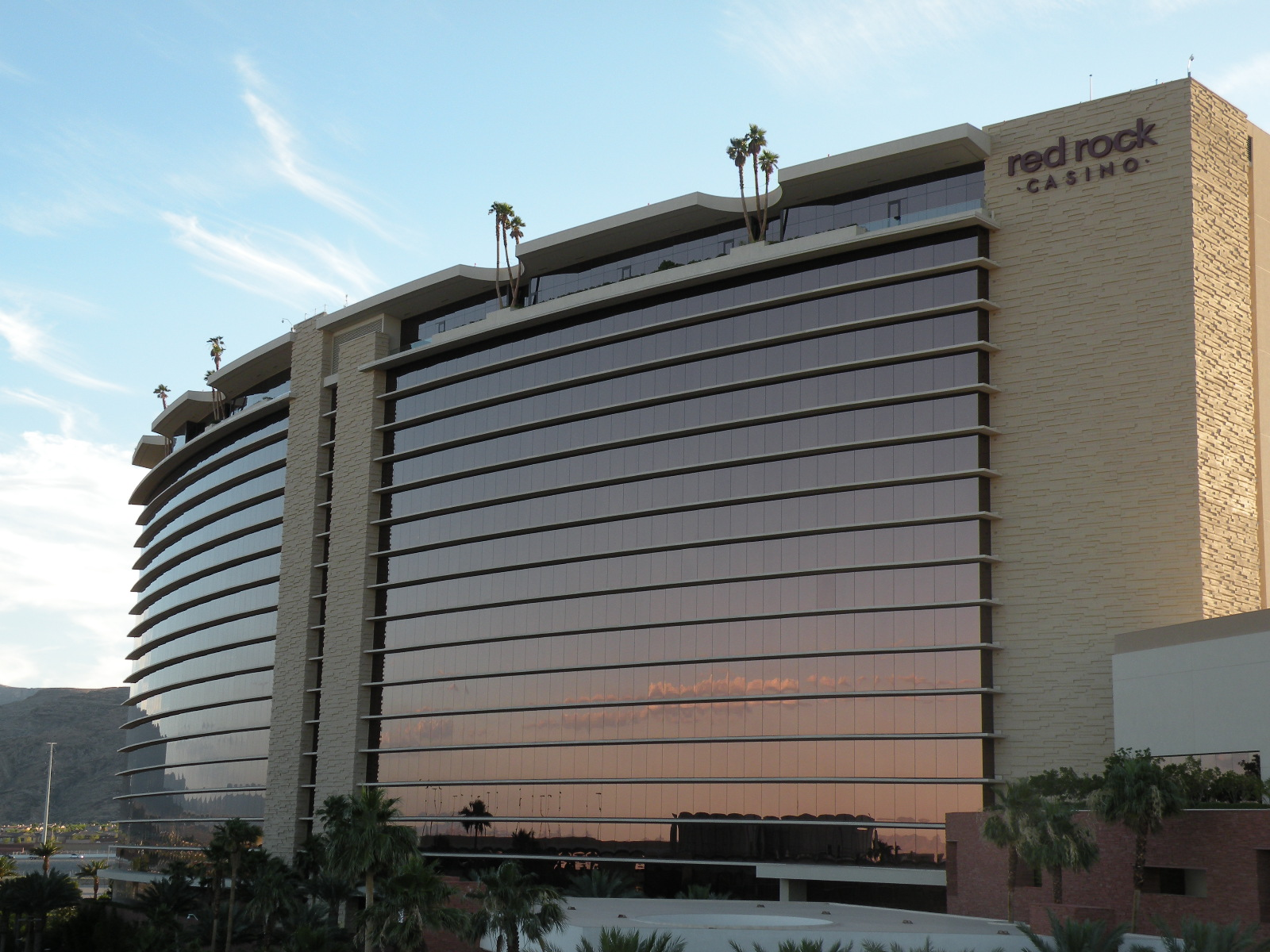 The hotel tower of the Red Rock Resort in Summerlin, Nevada.